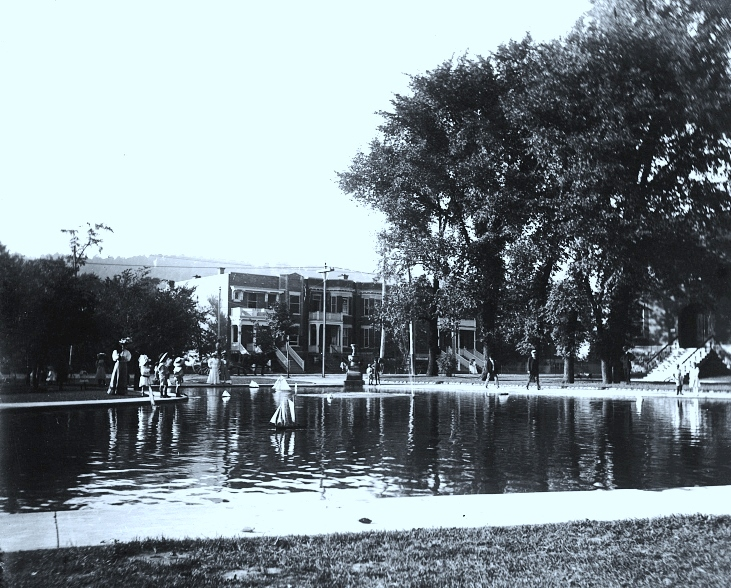 Photograph, Westmount Park pond, Westmount, QC, 1908,Alfred Walter Roper, Silver salts on glass - Gelatin dry plate process - 10 x 12 cm